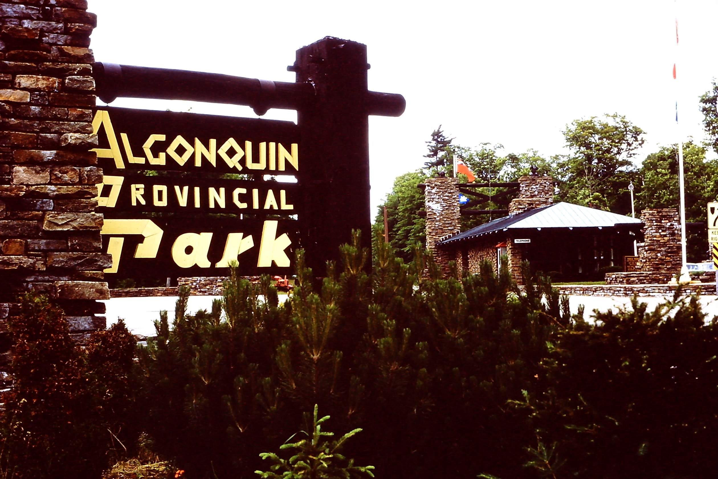 Algonquin Provincial Park, Ontario, Canada - Dr. Dennis Bogdan - 1967 Dr. Dennis Bogdan - Visiting Algonquin Provincial Park in Ontario, Canada - 1967. NOTE: If redistributing, please be consistent with the Creative Commons Attribution-ShareAlike 4.0 License and the GNU Free Documentation License agreements. Nikon (35mm) camera – scanned 35mm slide - Location = Algonquin Provincial Park - 1967 Previously published: none